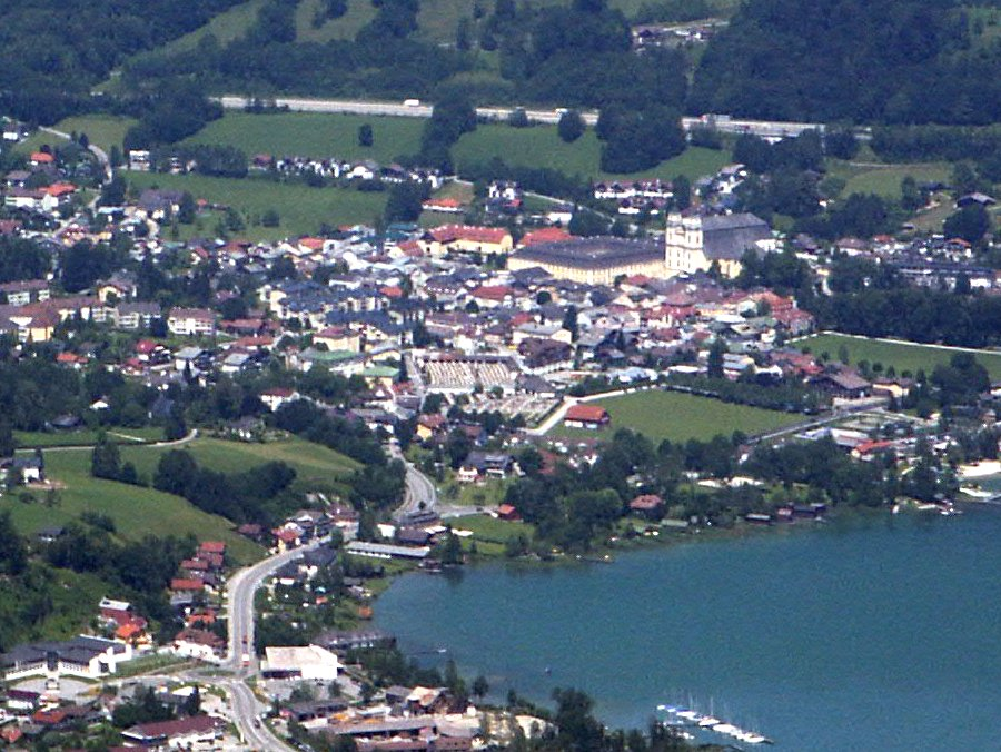 A cut version of my other Mondsee-picture The town Mondsee in Upper Austria and the part of the lake Mondsee. Picture taken from the mountain Schober on 2006-07-03 by myself D.Höss./Birka. licensed under the GFDL